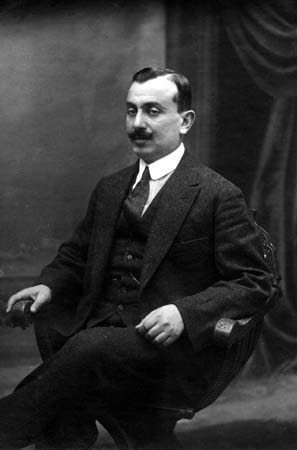 Prime Minister Jamil al-Ulshi (1883-1951). Ulshi served as prime minister in 1920, and again in 1943 under President Taj al-Din al-Hasani. When Hasani died, he became Acting President in January-April 1943.